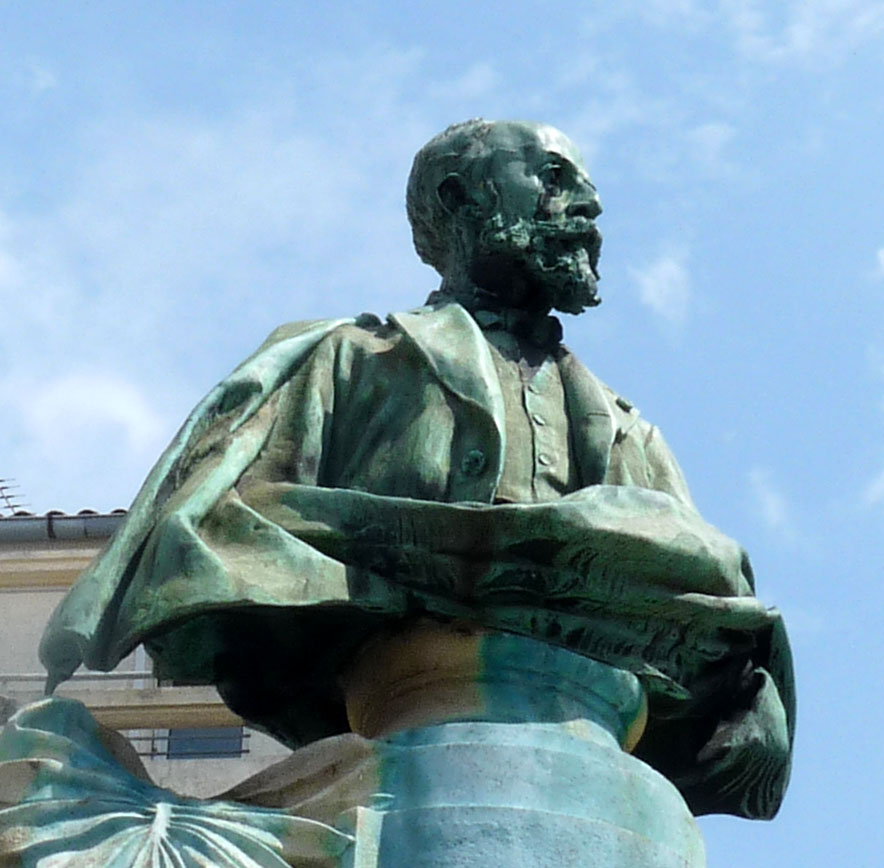 Statue of Eugène Fromentin in La Rochelle